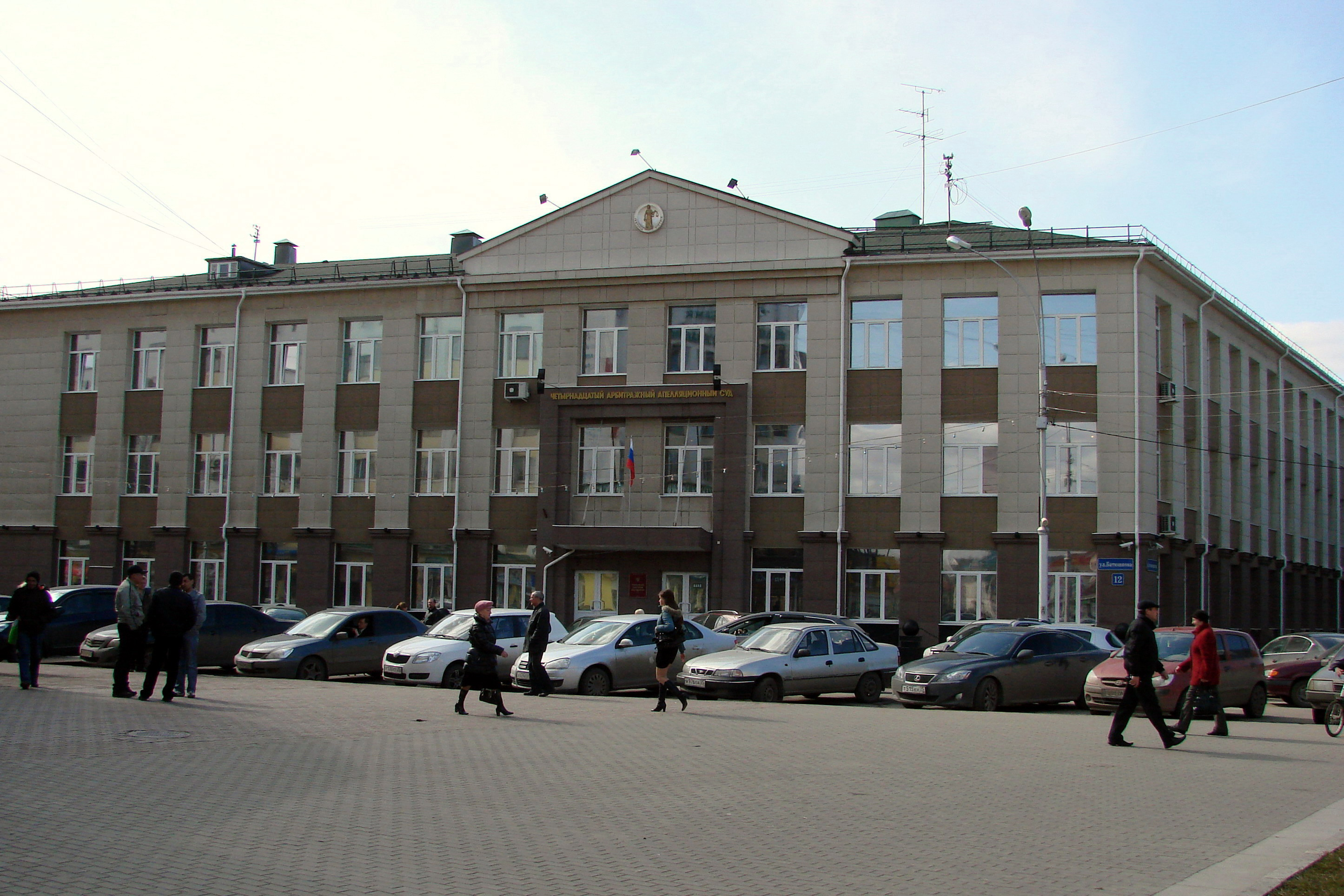 Russia, Vologda, 14 Arbitration Court of Appeals